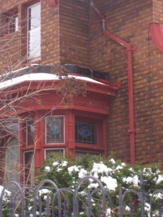 Collins House, 2201 E. Genesee Street, Syracuse, New York. Window detail 1.